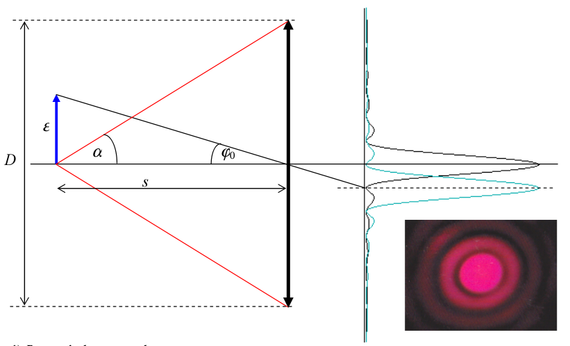 Diagram of the angular resolution of a lens